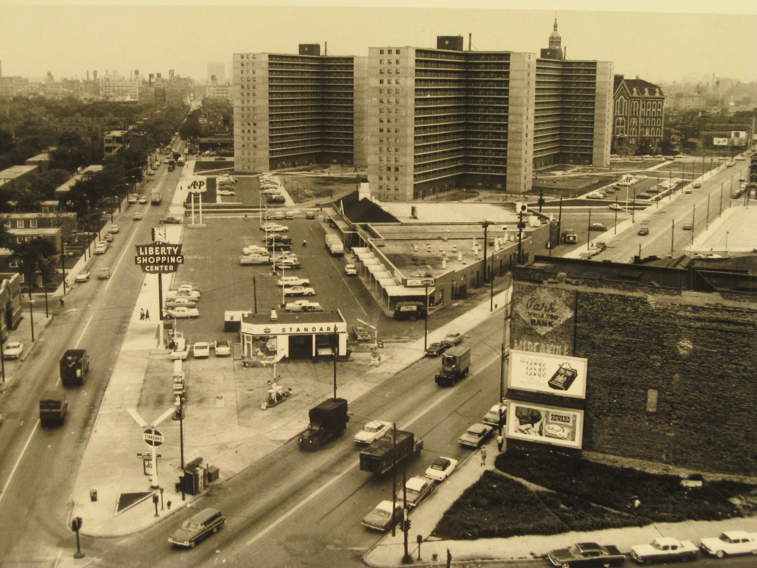 Blue Island and Racine, Chicago. "After" shot of urban renewal site. ca. 1965 Main Photographic Print File of the Department of Housing and Urban Development, compiled 1965 - 1995. NARA College Park.